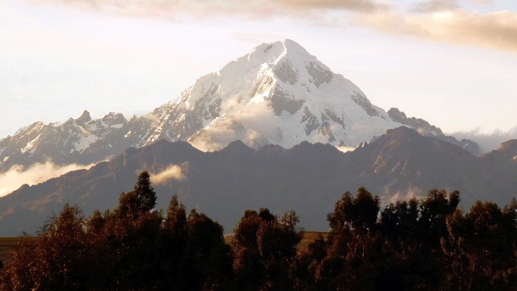 Nevado Verónica (Cuzco, Peru). The second highest mountain in the Cordillera Urubamba.